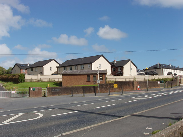 Housing estate at Kilmeaden Village Centre The houses are seen across the N25 road; the shopping centre of Kilmeaden is just behind the viewpoint.